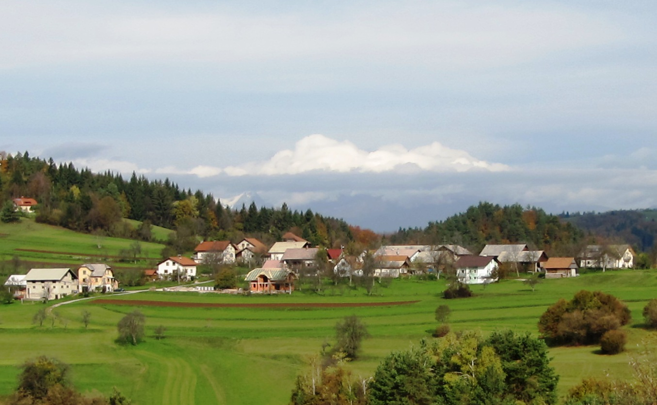 The village of Veliki Lipoglav, City Municipality of Ljubljana, Slovenia